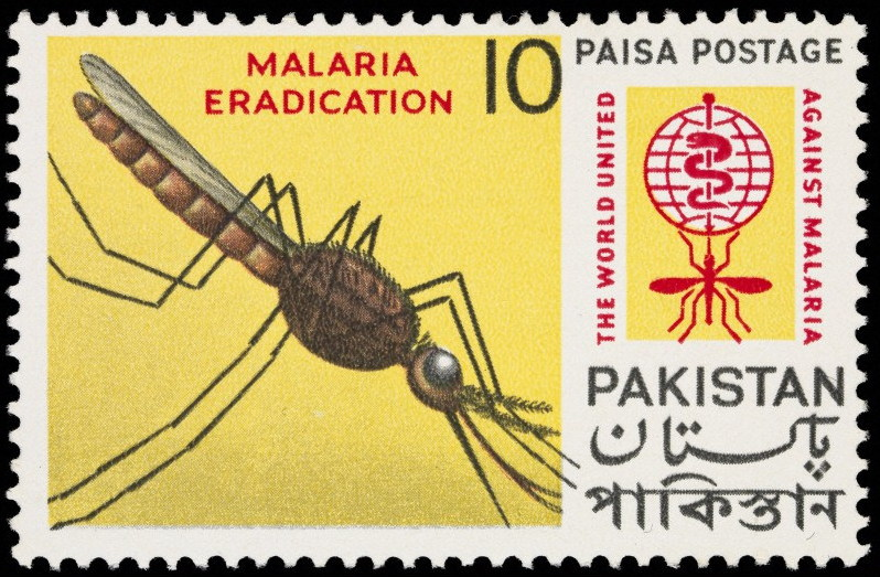 L0074987 Malaria eradication : the world united against malaria. 10 paisa postage stamp showing a mosquito in profile on a yellow background and the International year of malaria symbol.